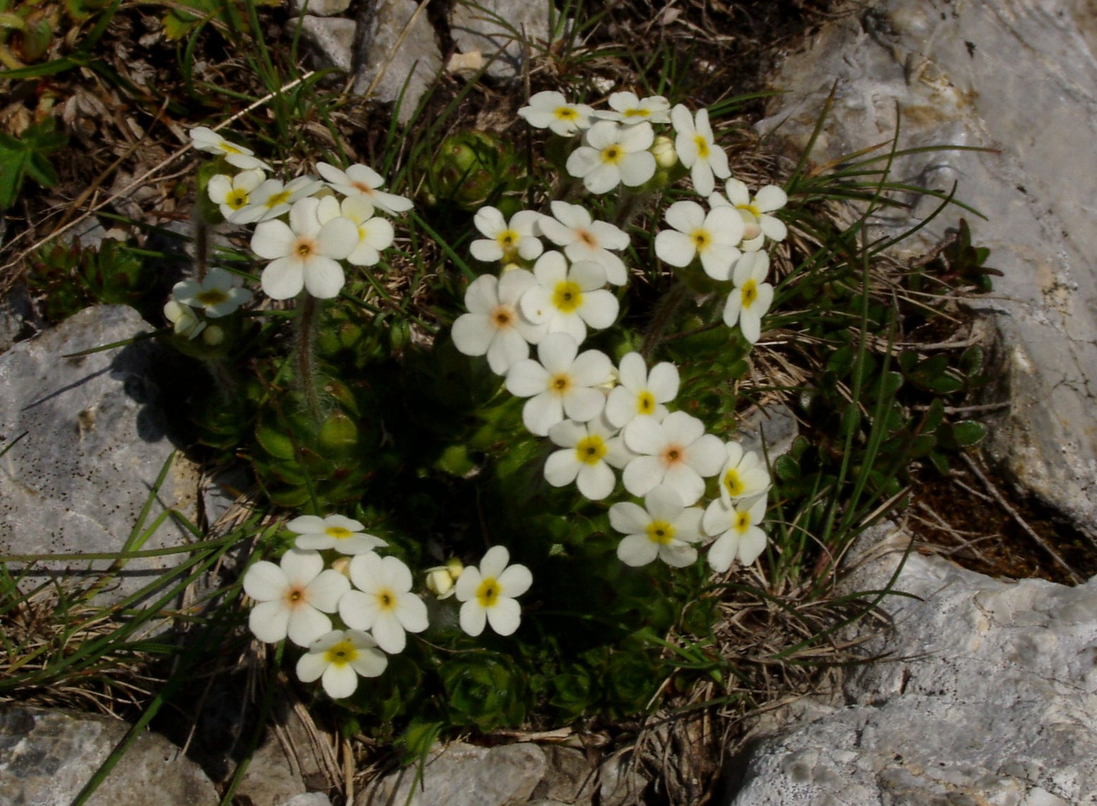 Androsace chamaejasme at Rax, Lower Austria. Approx. 1600 m